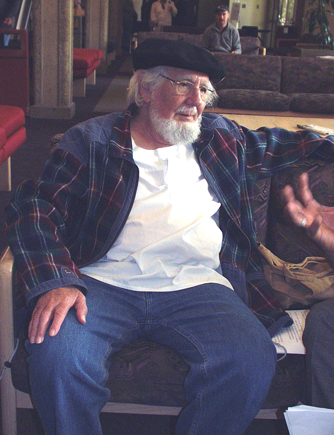 Poet Ernesto Cardenal at San Diego State University Montezuma Hall, San Diego. Photograph by Patty Mooney, Crystal Pyramid Productions, San Diego, California.